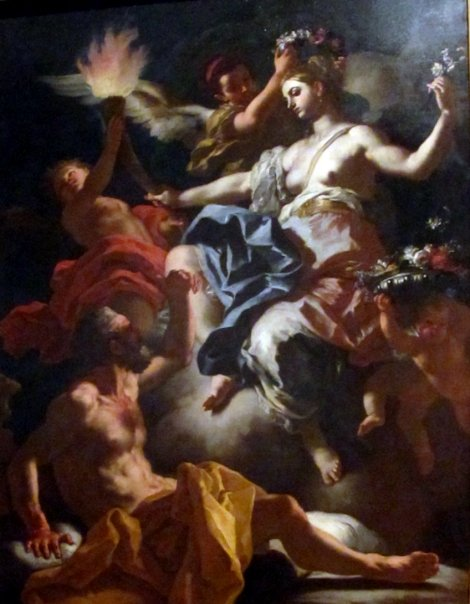 Aurora, Roman goddess of the dawn, bids goodbye to her lover Tithonus. Aurora is about to illuminate the darkness of night.